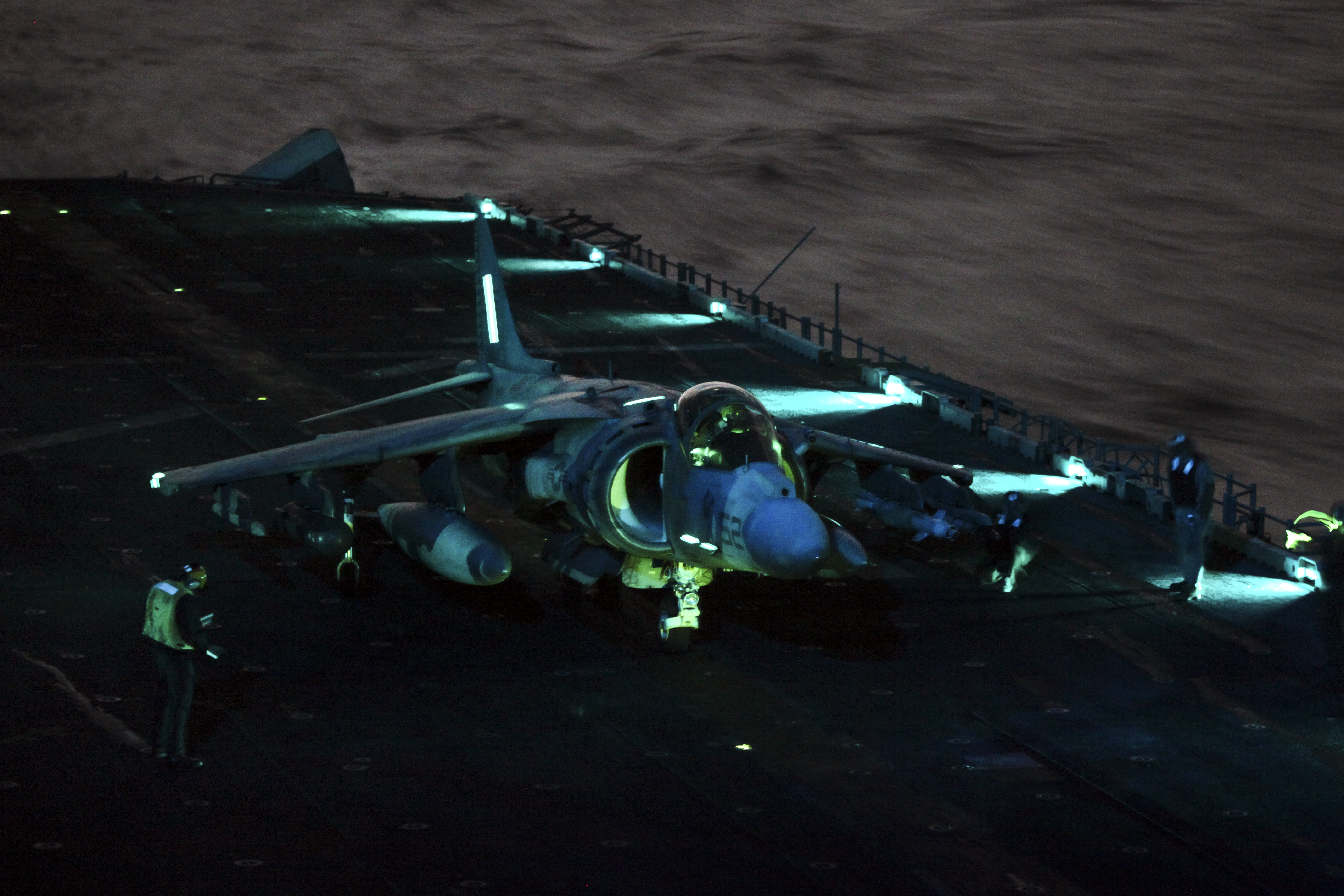 An AV-8B Harrier jump jet returns to USS Kearsarge for fuel and ammunition resupply in support of Joint Task Force Odyssey Dawn, March 20, 2011. The jet is from the Marine Medium Tiltrotor Squadron, 26th Marine Expeditionary Unit. Coalition forces launched the operation to enforce U.N. Security Council Resolution 1973.